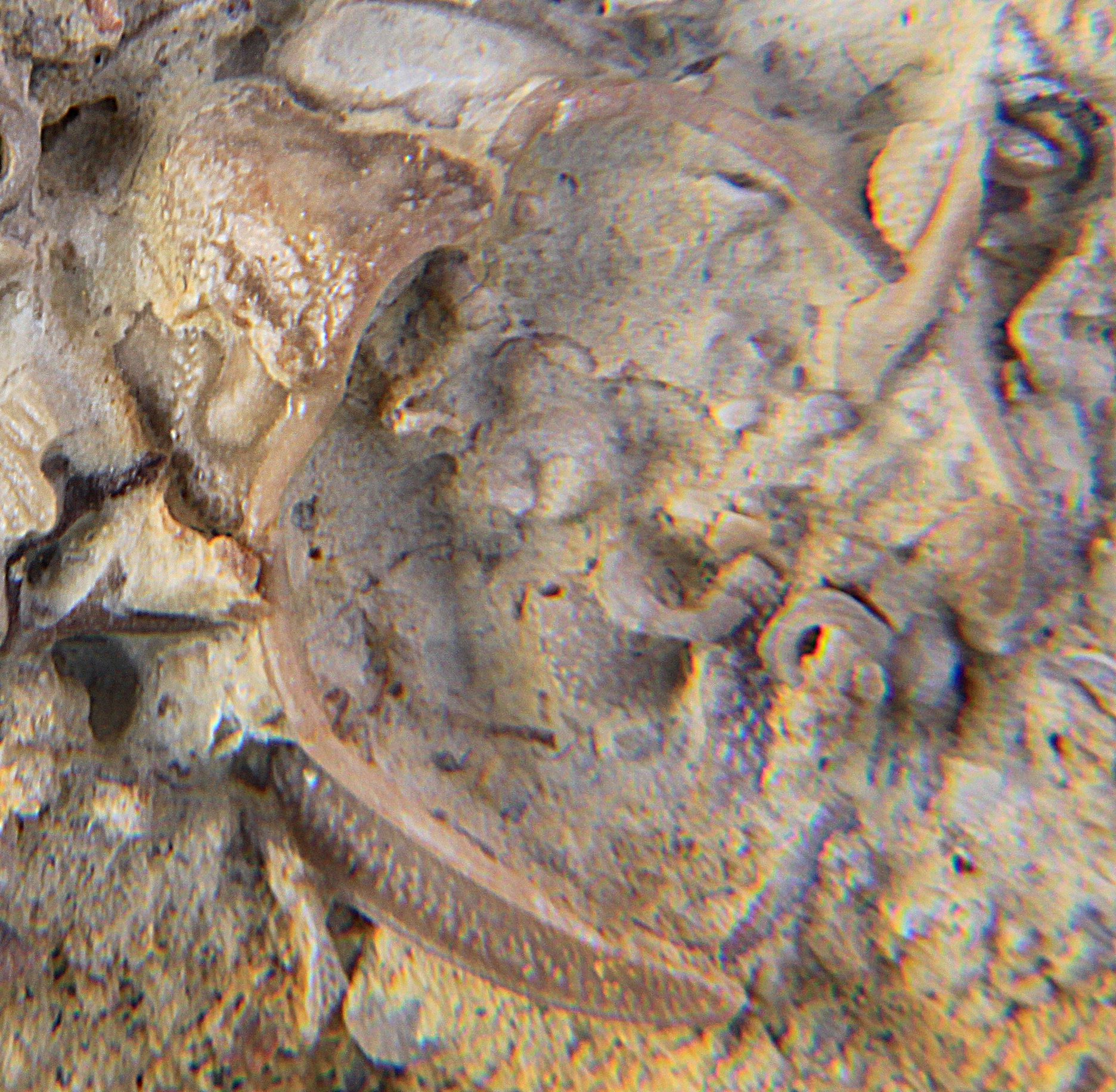 A Dolichoharpes reticulata trilobite, Order Harpetida, Family Harpetidae, 5mm along the axis, 17mm from the front margin to the tip of the genal spines, collected at the Bromide Formation, Criner Hills, Carter County, Oklahoma, USA, from the early Upper Ordovician (Sandbian)